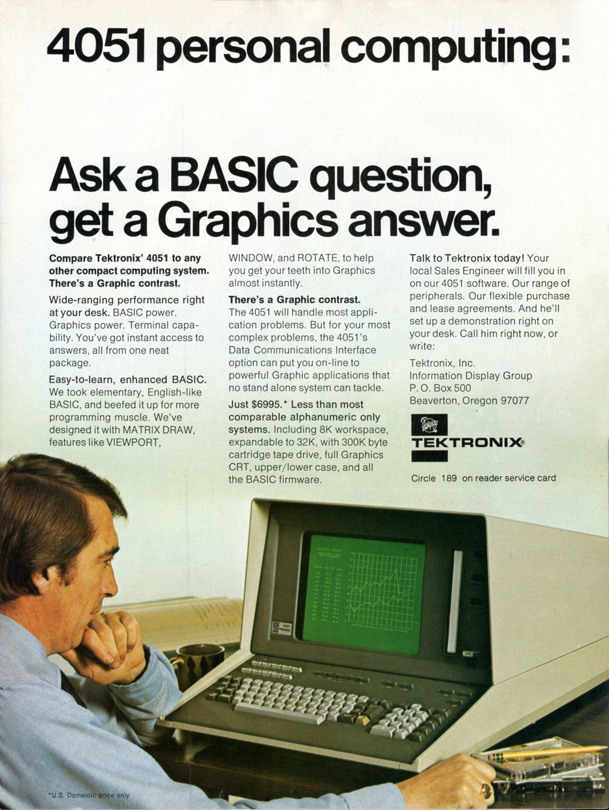 The Tektronix 4051 Graphic Computing System was introduced in October 1975. ("Terminal talks Basic", Electronics, October 30, 1975, Page 120.) This used a Motorola MC6800 microprocessor with a maximum of 32 KB of RAM. The 1024 by 780 display was a storage tube that would hold the image itself.